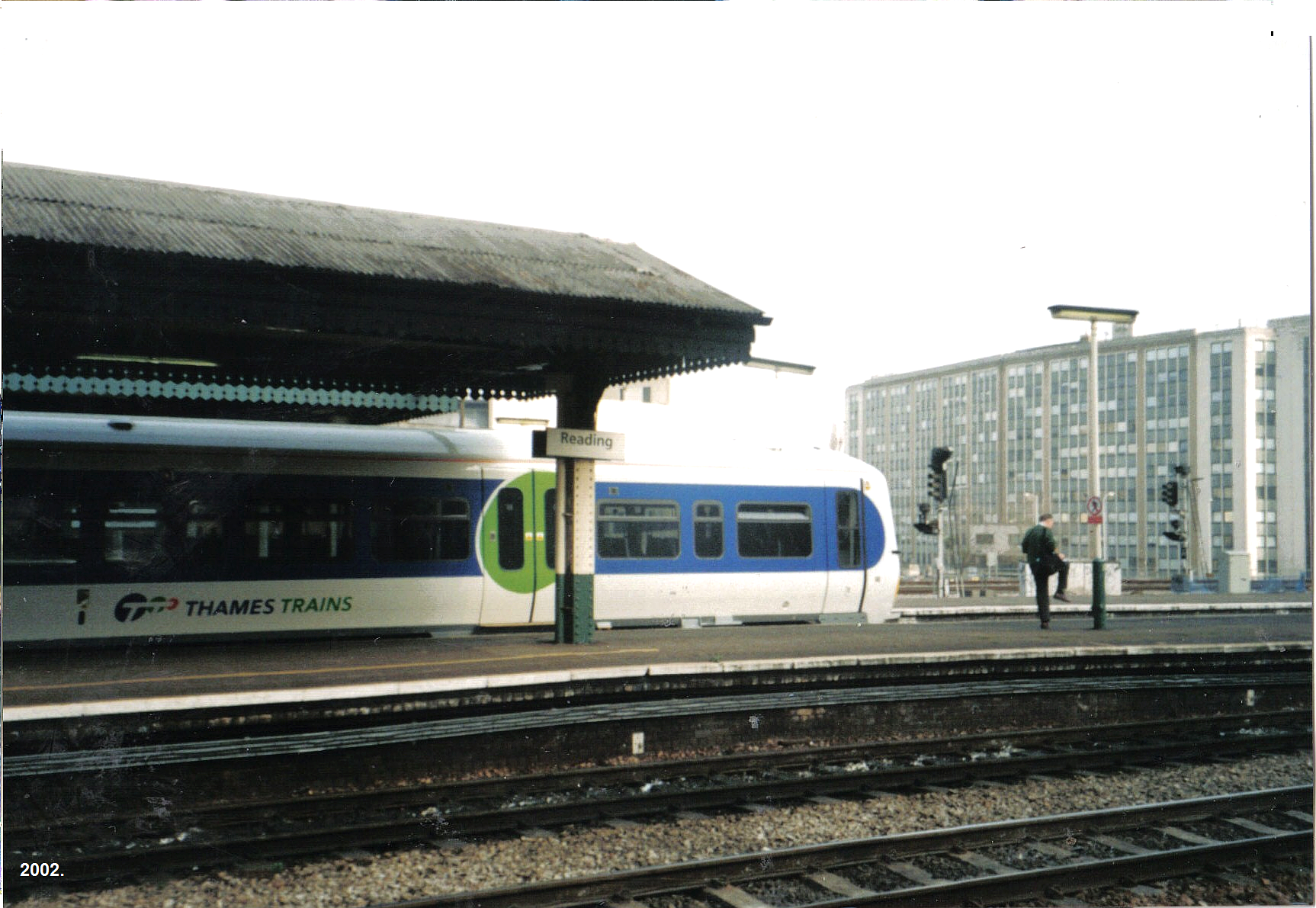 I took the picture of this Thames Turbo myself at Reading station in the year 2002. I hereby release it in to the public domain.